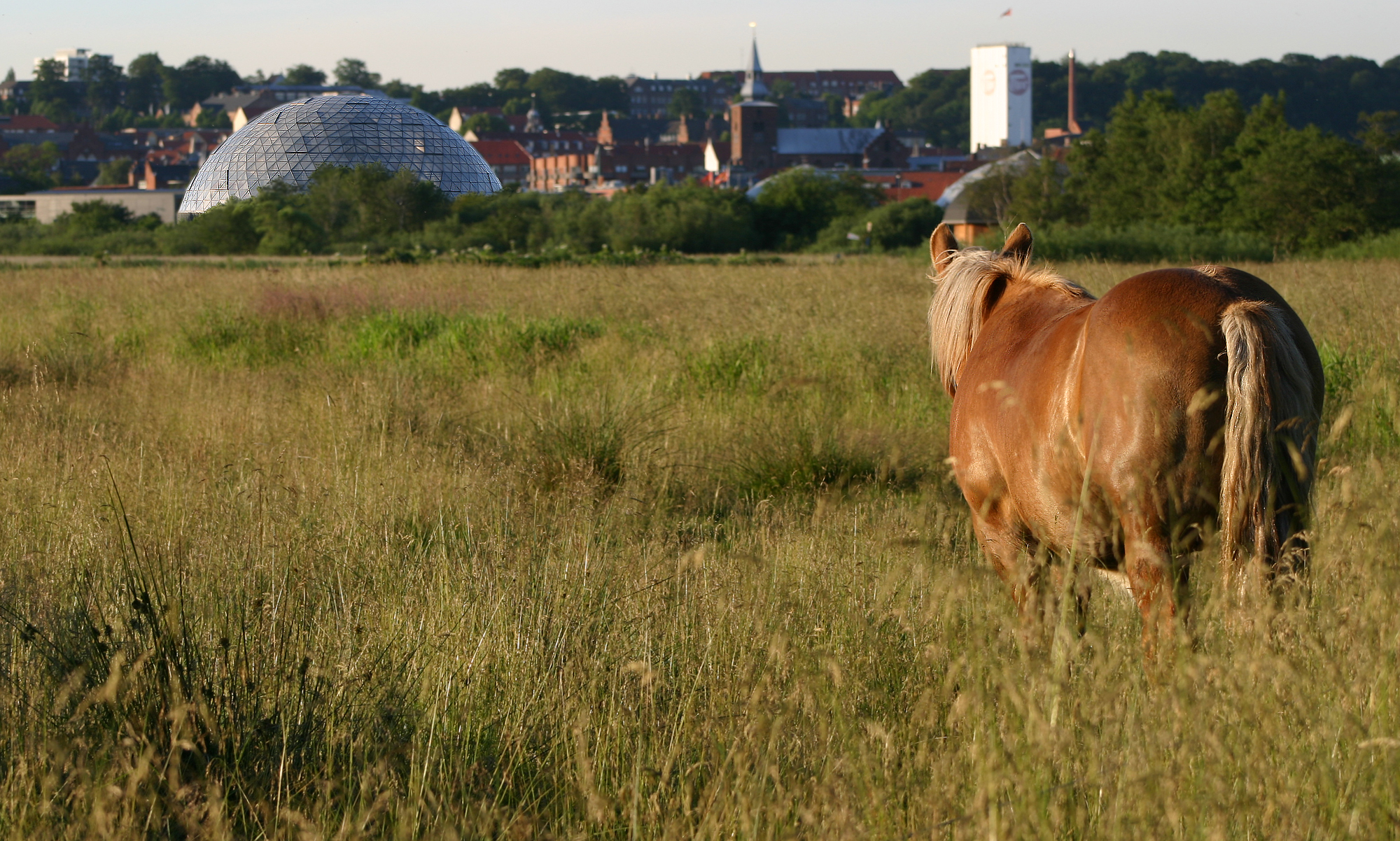 Randers Regnskov, a tropical Zoo near Randers, Denmark